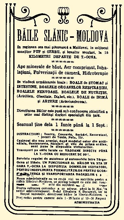 A newspaper ad for the Slănic Moldova resort in Romania. From the 19th century